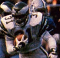 Philadelphia Eagles' running back Wilbert Montgomery rushing the ball against the Dallas Cowboys in the 1980 NFC Championship Game on January 11, 1981.